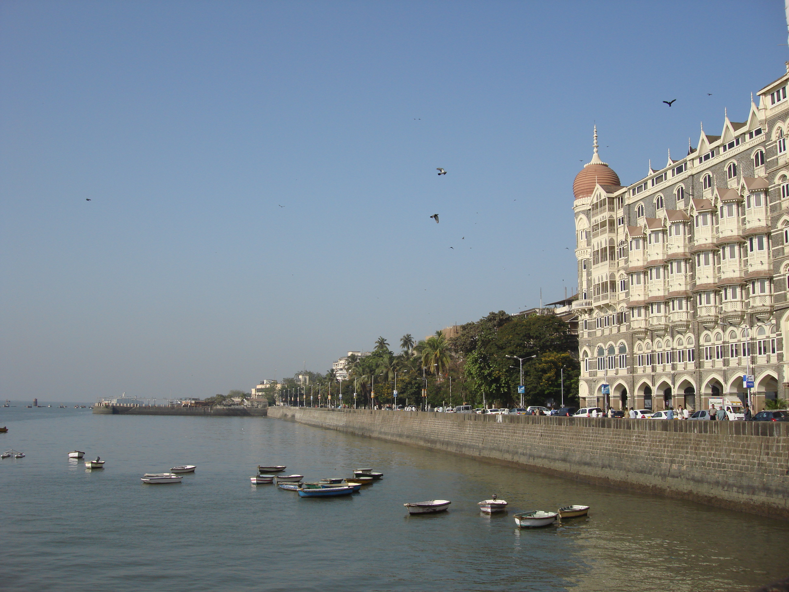 The Taj Mahal Palace situated on the waterfront, is a gracious landmark facing the Gateway of India. It was built in 1903 by the Parsi industrialist JN Tata, supposedly after he was refused entry to one of the city's European hotels because he was "a native". It's a magnificent structure that exhibits Moorish influences and it is crowned by a grand red-roofed dome. It's worth a peek at the hotel's interior. Especially the grand central stairway and the internal galleries, which were once exposed to the elements to aid ventilation. The Taj is also worth visiting to see the Mumbai elite in their element. [Lonely Planet - India, 2005]